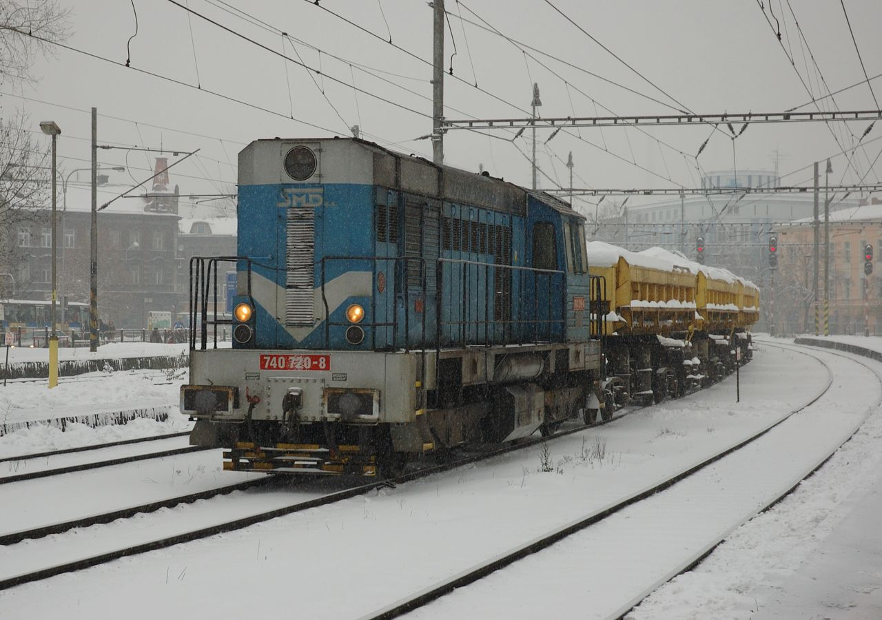 Locomotive 740.720 of Slezskomoravská dráha railway operator, Český Těšín, Czech Republic